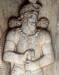 Shapur II of Persia.